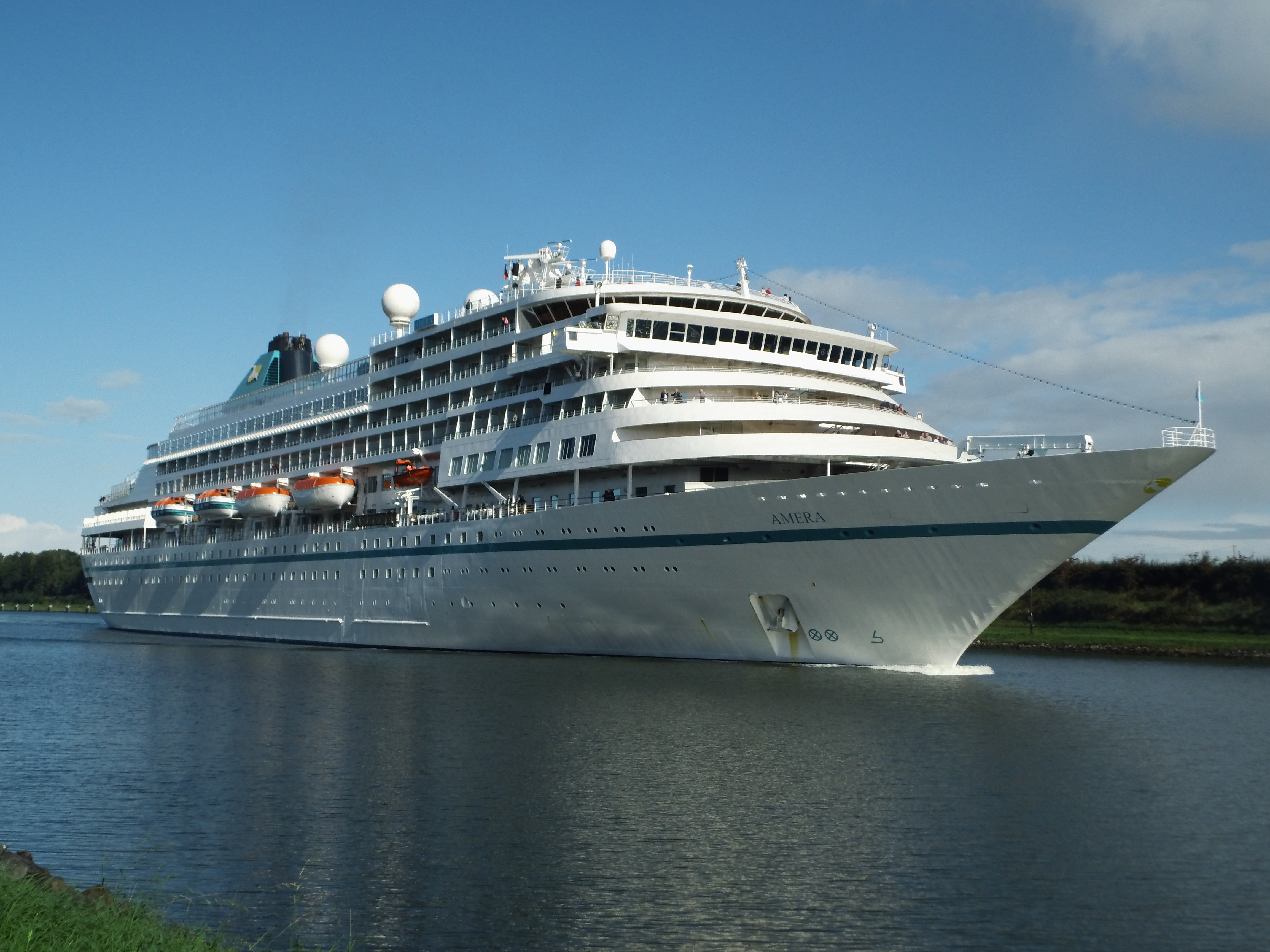 Amera for the first time in the Kiel canal/Königsförde